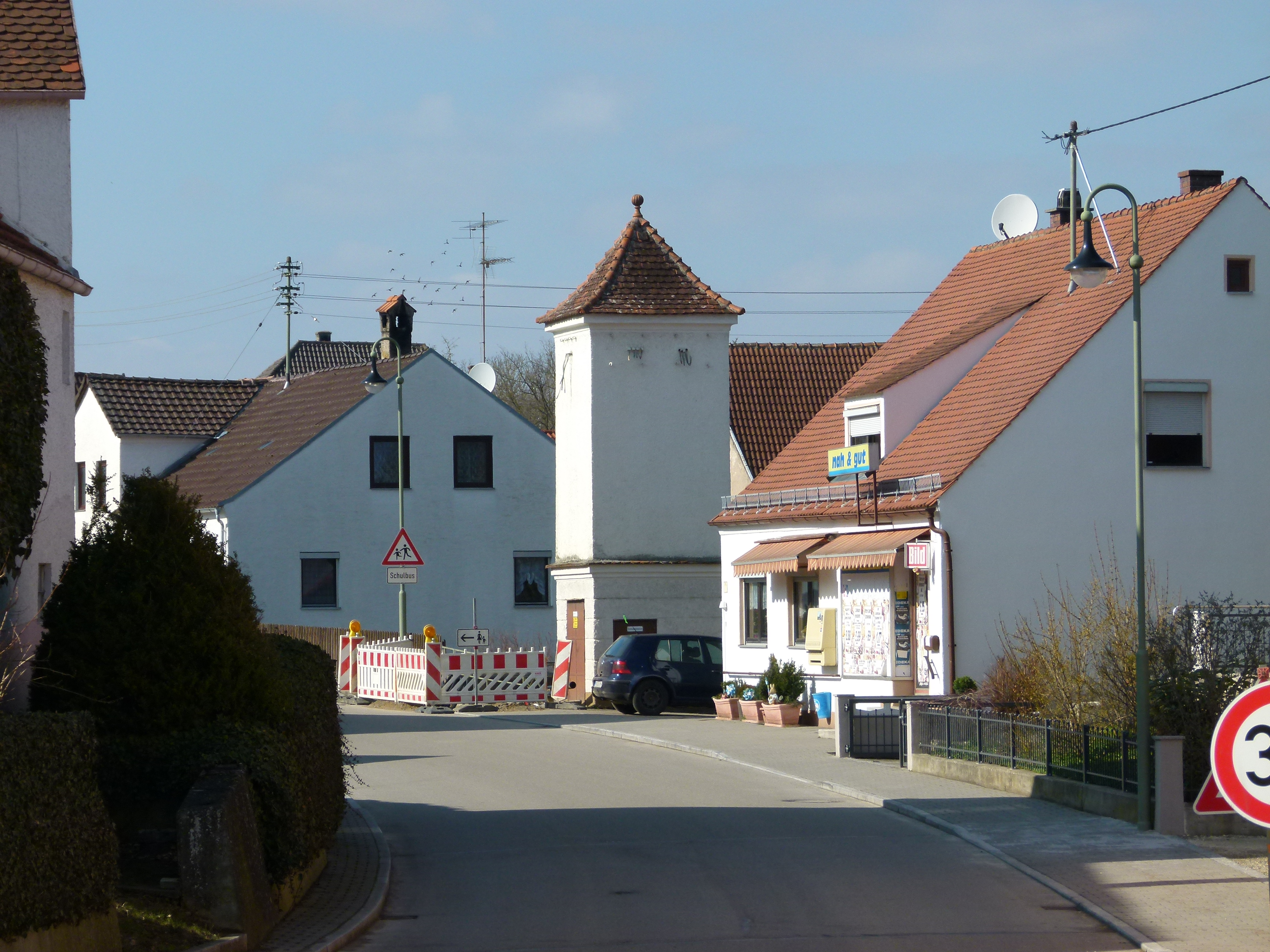 View of Regilostraße in Gansheim.